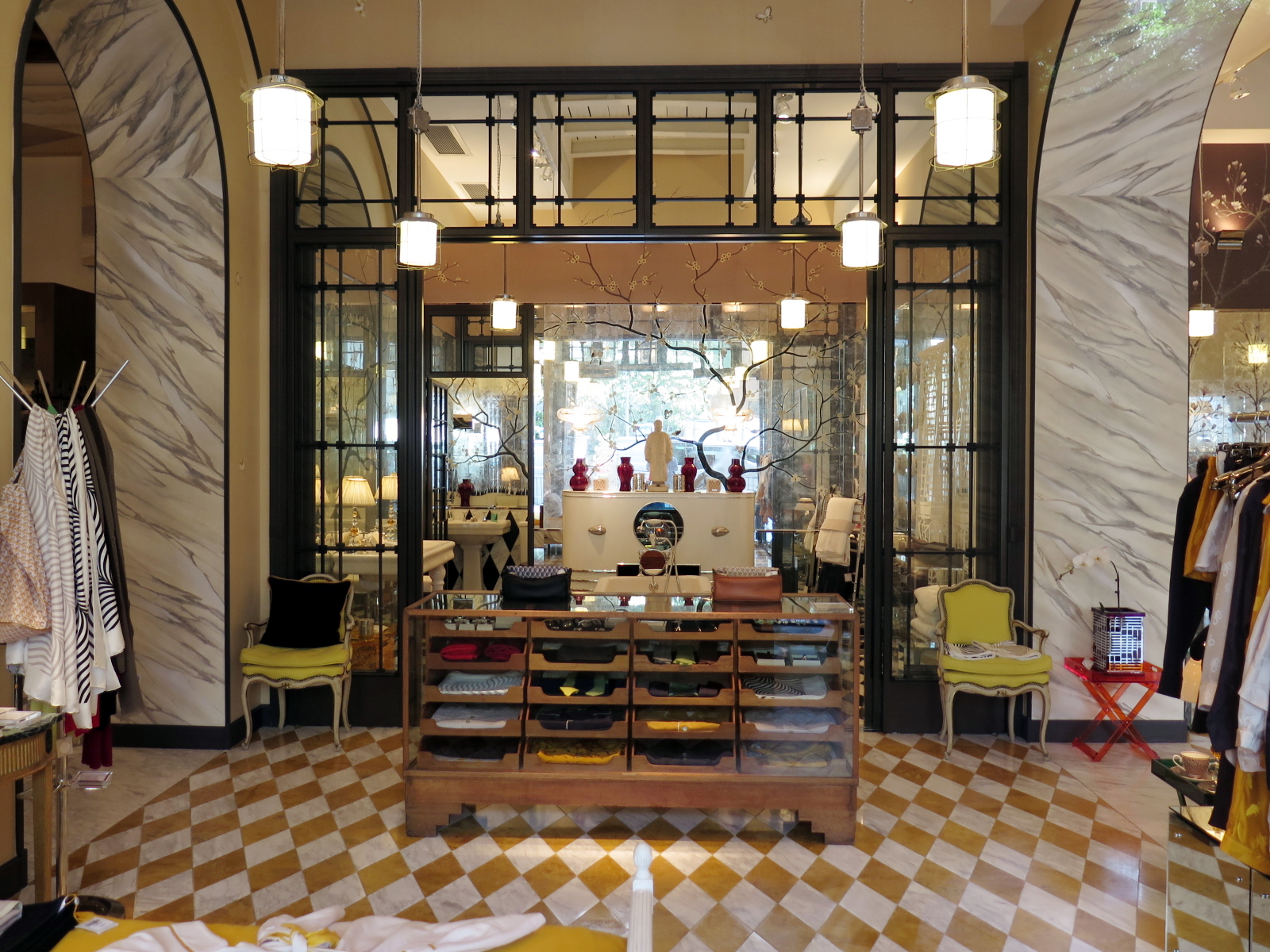 Furniture shop "Tang Tang Tang Tang" in the Woo Cheong Pawn Shop (moved out in December 2016)